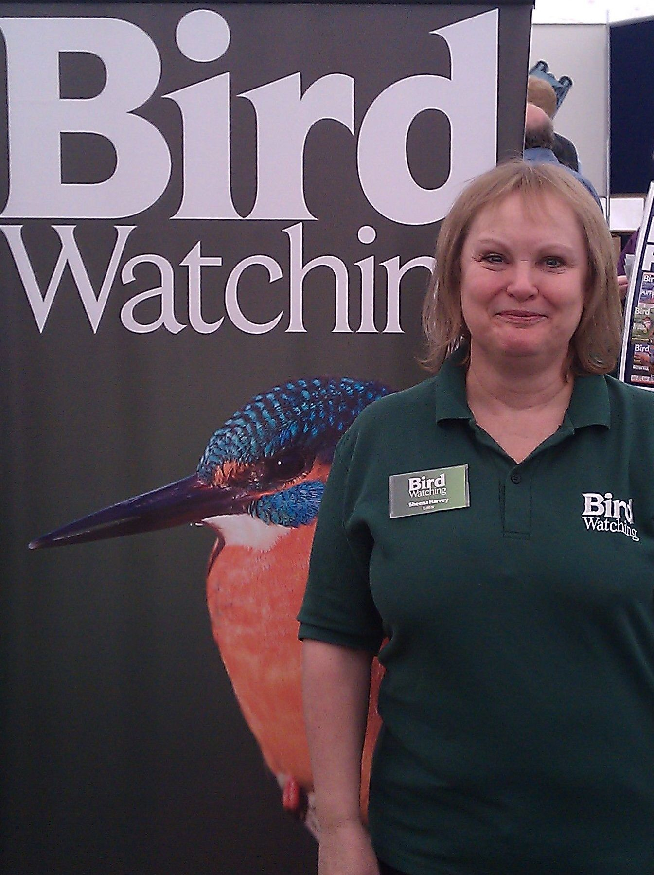 Sheena Harvey editor of Bird Watching magazine, at a bird-watchers' fair at Middleton Hall, on 21 May 2011.